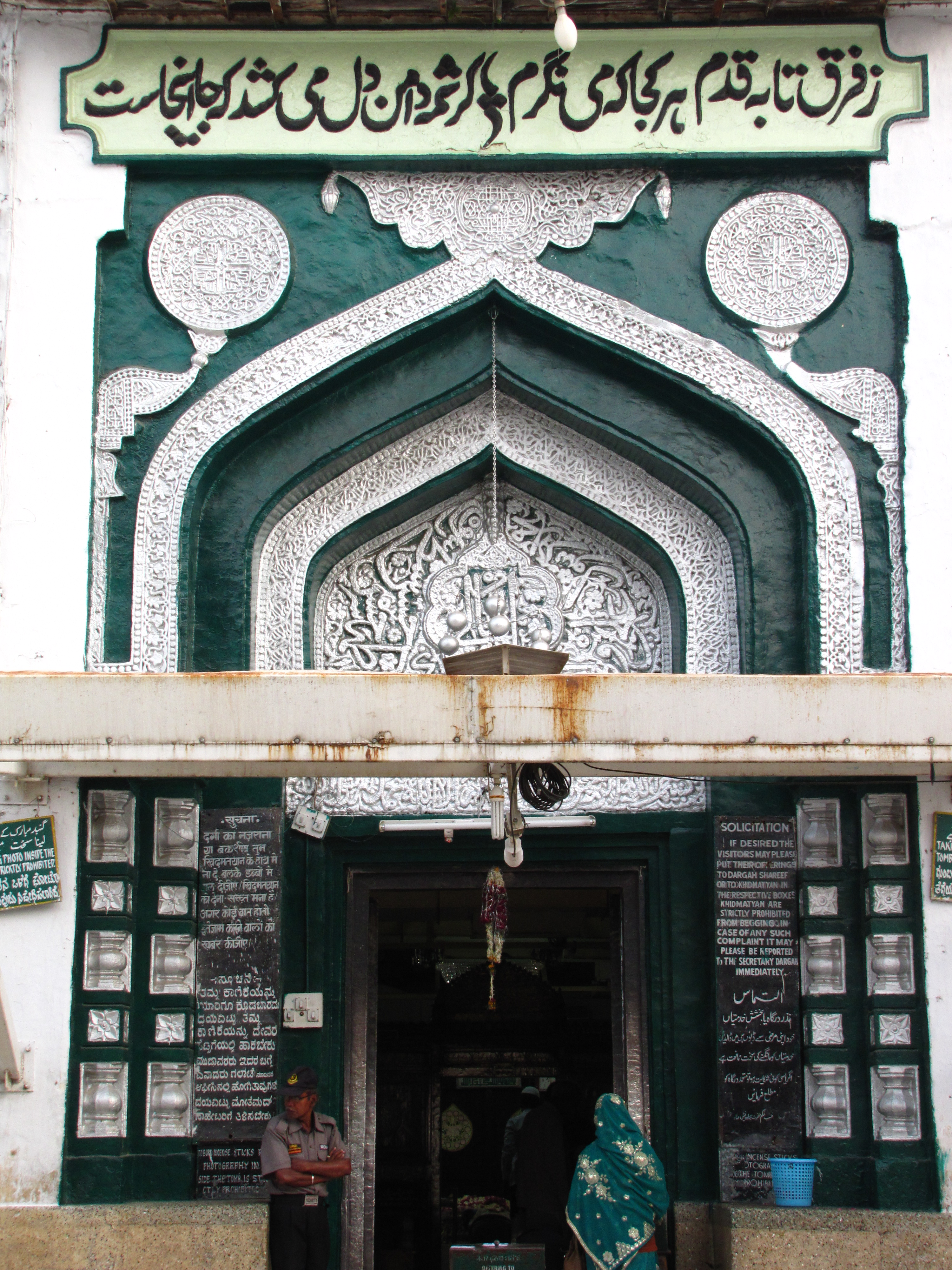 Entrance to Sufi Saint Hazrath Khwaja Banda Nawaz Gezu Daraz(RA)